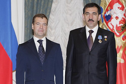 Yunus-bek Yevkurov, the third president of Ingushetia.